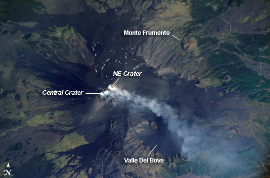 ISS013-E-62714 (2 Aug. 2006) --- Mt. Etna Summit Plumes, Sicily is featured in this image photographed by an Expedition 13 crewmember on the International Space Station. One of the most consistently active volcanoes in the world is Sicily's Mt. Etna, which has a historical record of eruptions dating back to 1500 B.C. This image captures plumes of steam and possible minor ash originating from summit craters on the mountain -- the Northeast Crater and Central Crater, which includes two secondary craters (Voragine and Bocca Nuova). Explosions were heard from the rim of the Northeast Crater on July 26, and scientists suspect that these plumes are a continuation of that activity. The massive 3350 meter high volcano is located approximately 24 kilometers to the north of Catania, the second largest city in Sicily, and dominates the northern skyline. Much of Etna's surface is comprised of numerous generations of dark basaltic lava flows, as can be seen extended outwards from the summit craters. Fertile soils developed on older flows are marked by green vegetation. While the current explosive eruptions of Etna tend to occur at the summit, lava flows generally erupt through fissures lower down on the flanks of the volcano. Many of the lava flow vents are marked by cinder cones on the flanks of Mt. Etna. Scientists have noted evidence of larger eruptive events as well. The Valle Del Bove to the south-southeast of the summit is a caldera formed by the emptying of a subsurface magma chamber during a large eruptive event -- once the magma chamber was emptied, the overlaying roof material collapsed downwards. Image Science and Analysis Laboratory, NASA-Johnson Space Center. "The Gateway to Astronaut Photography of Earth." (04/10/2008 02:52:12) The modified date is not available because scripts are disabled.. Send questions or comments to the NASA Responsible Official at